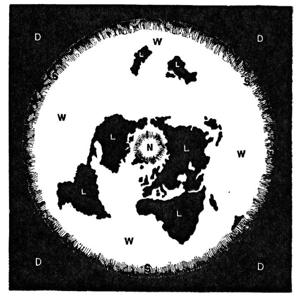 The shape of Earth as envisioned by Samuel Rowbotham.